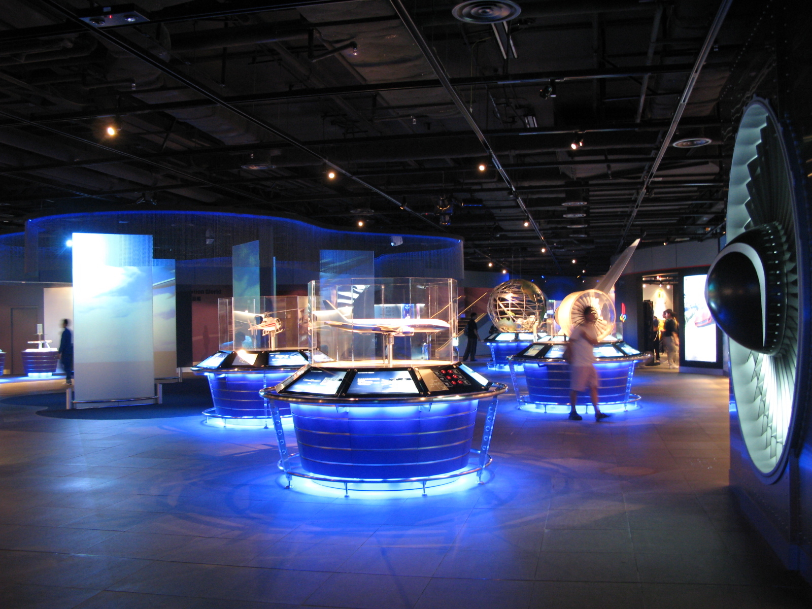 Aviation Discovery Centre Interior 航空探知館